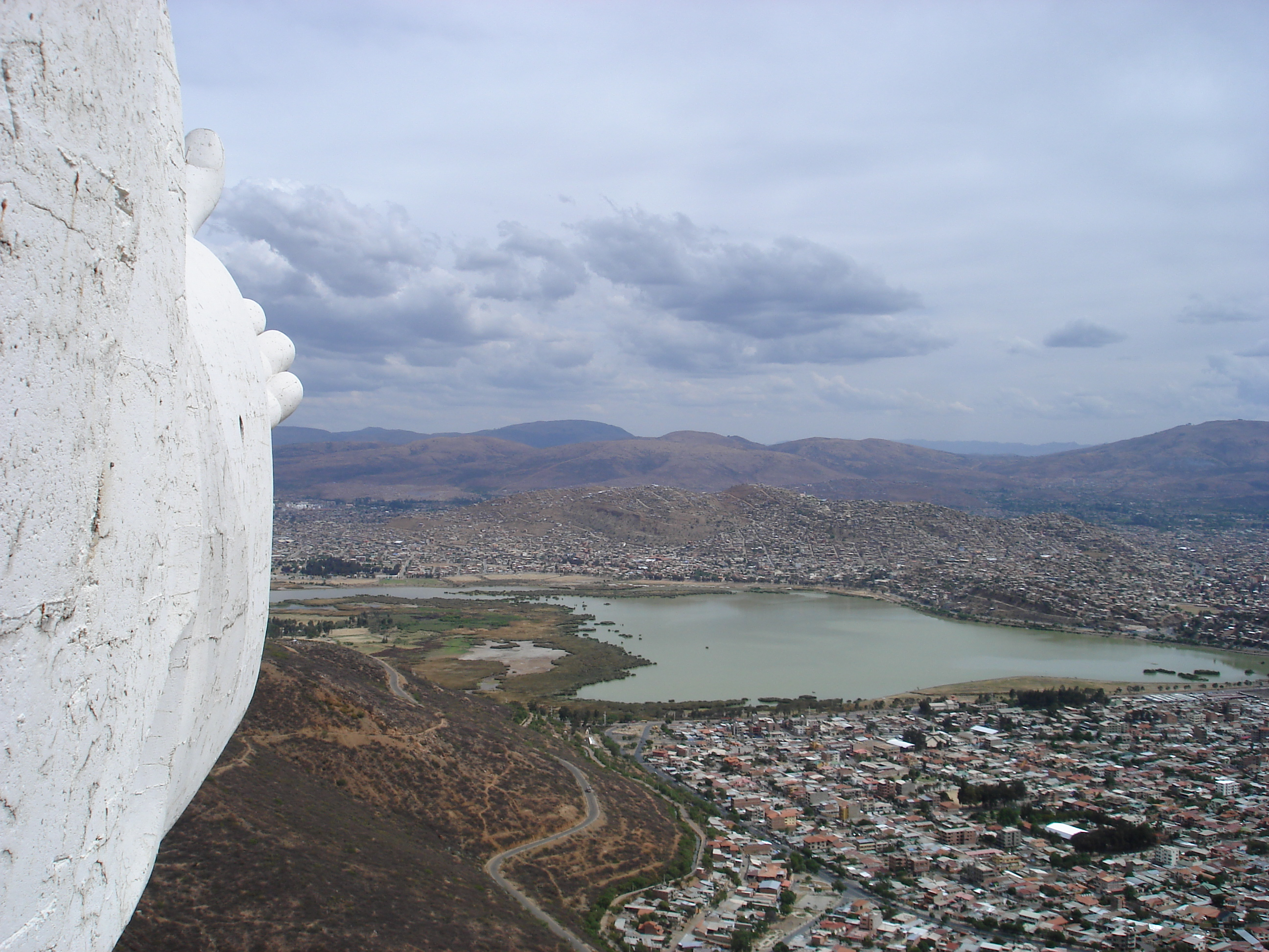 City and Christ's left arm